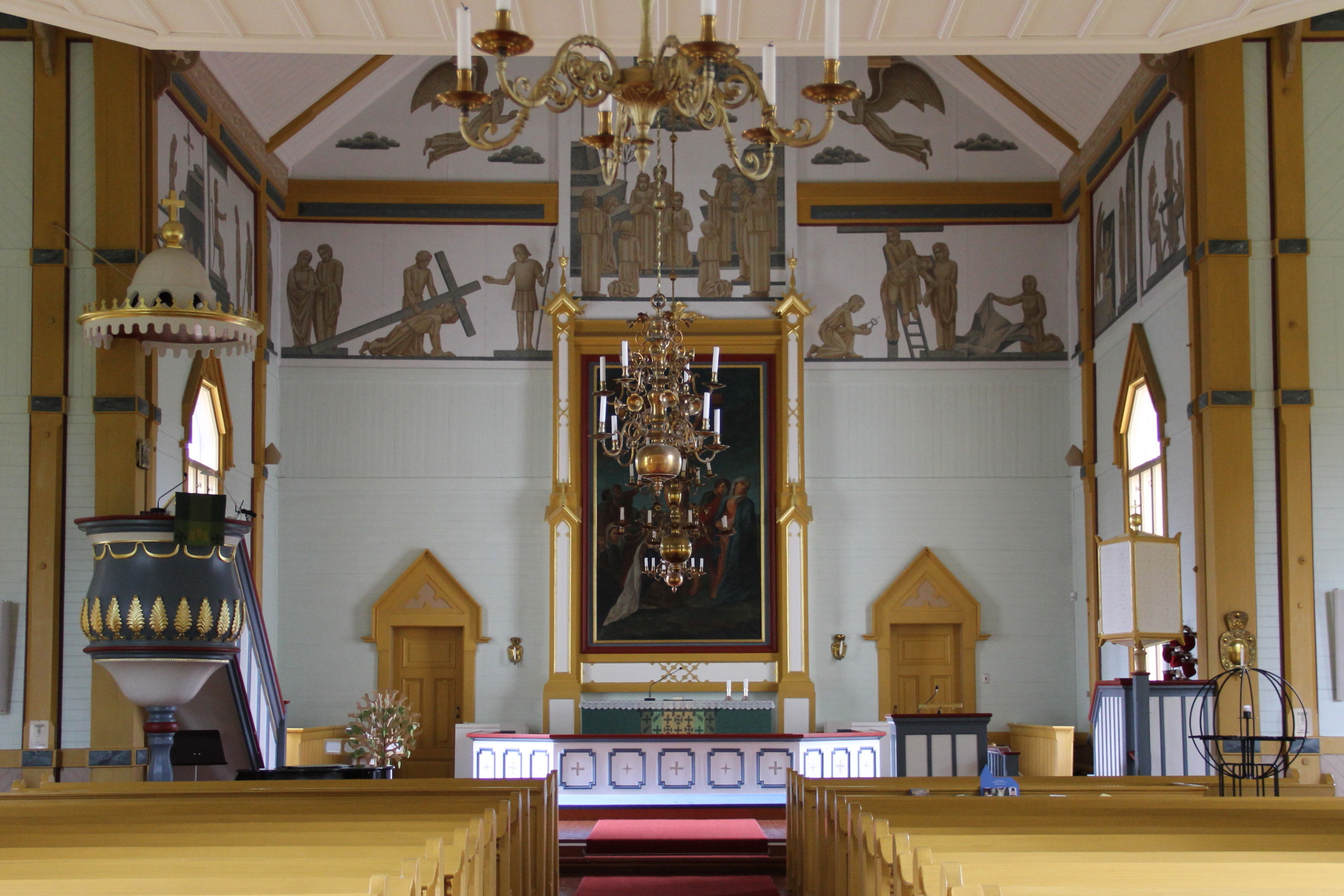 Nivala church, Nivala, Finland. - Altar wall.